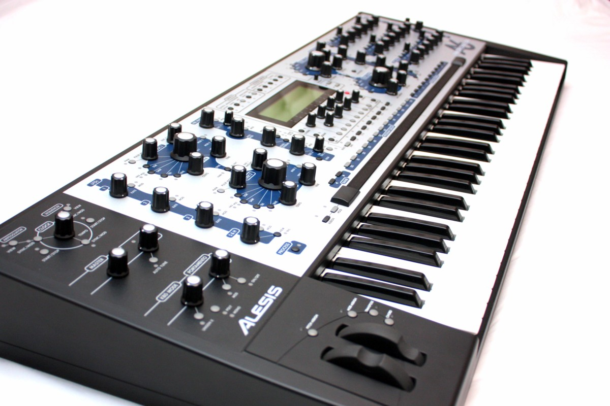 Alesis Andromeda A6 synthesizer front